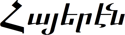 "Armenian language" (Հայերէն) written in the Armenian alphabet. Spelling in the traditional Armenian orthography. Font used is "Nor Kirk". Created using Draw and The GIMP on Mac OS X.